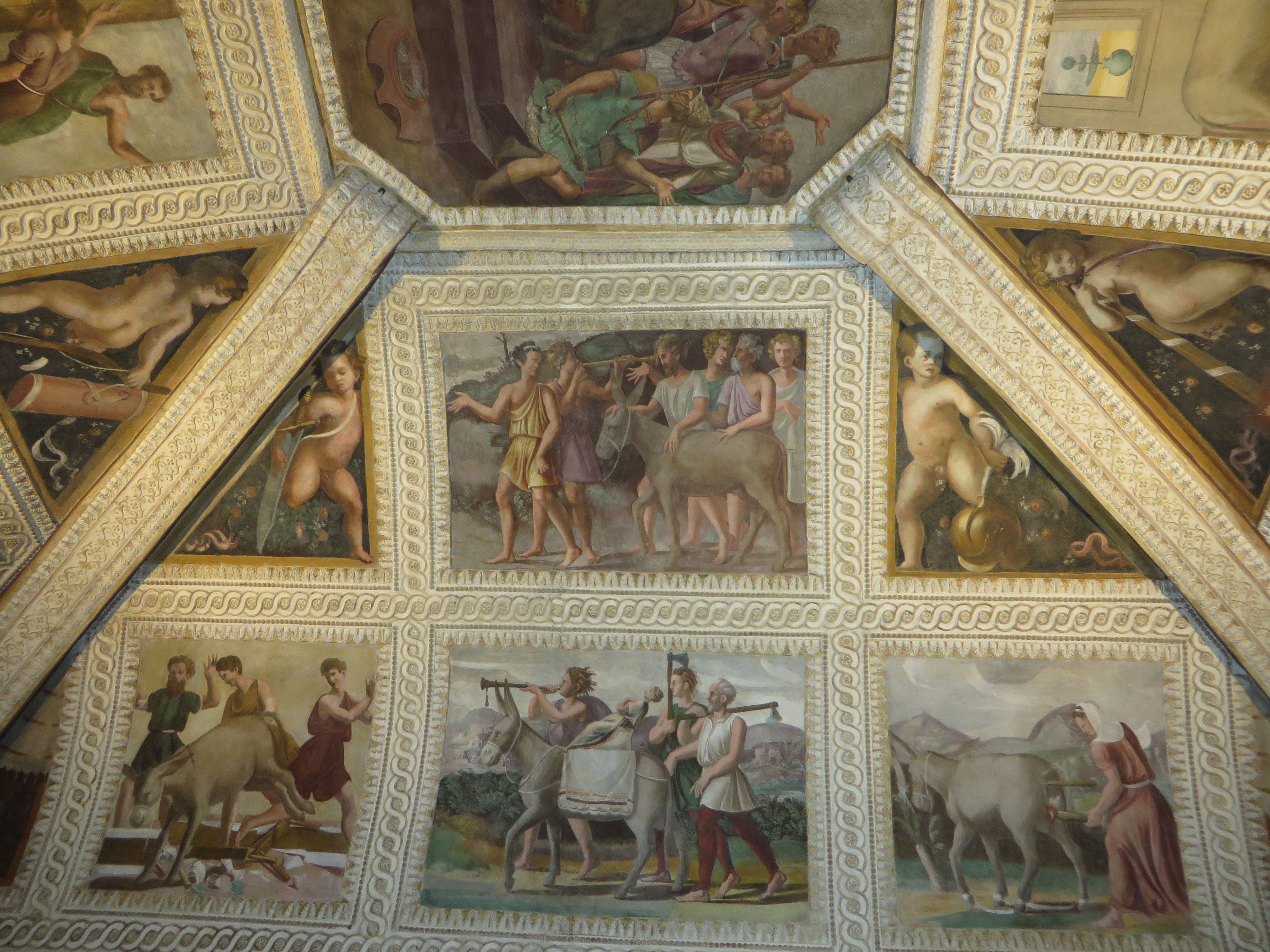 Rossi castle II